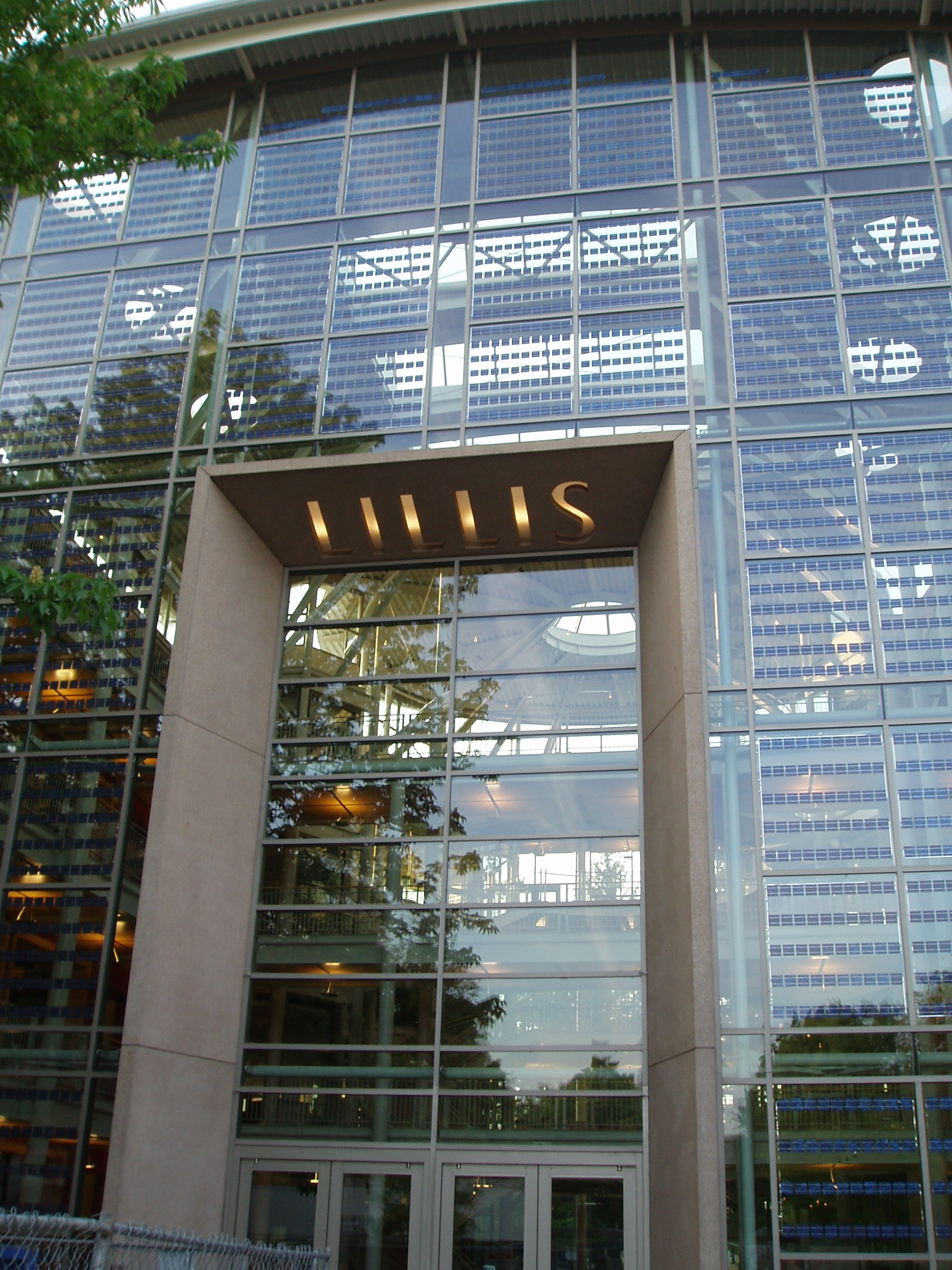 Detail of the front of the Lillis Business Complex, on the University of Oregon campus in Eugene, Oregon. The atrium's front wall is glass with embedded photovoltaic cells.